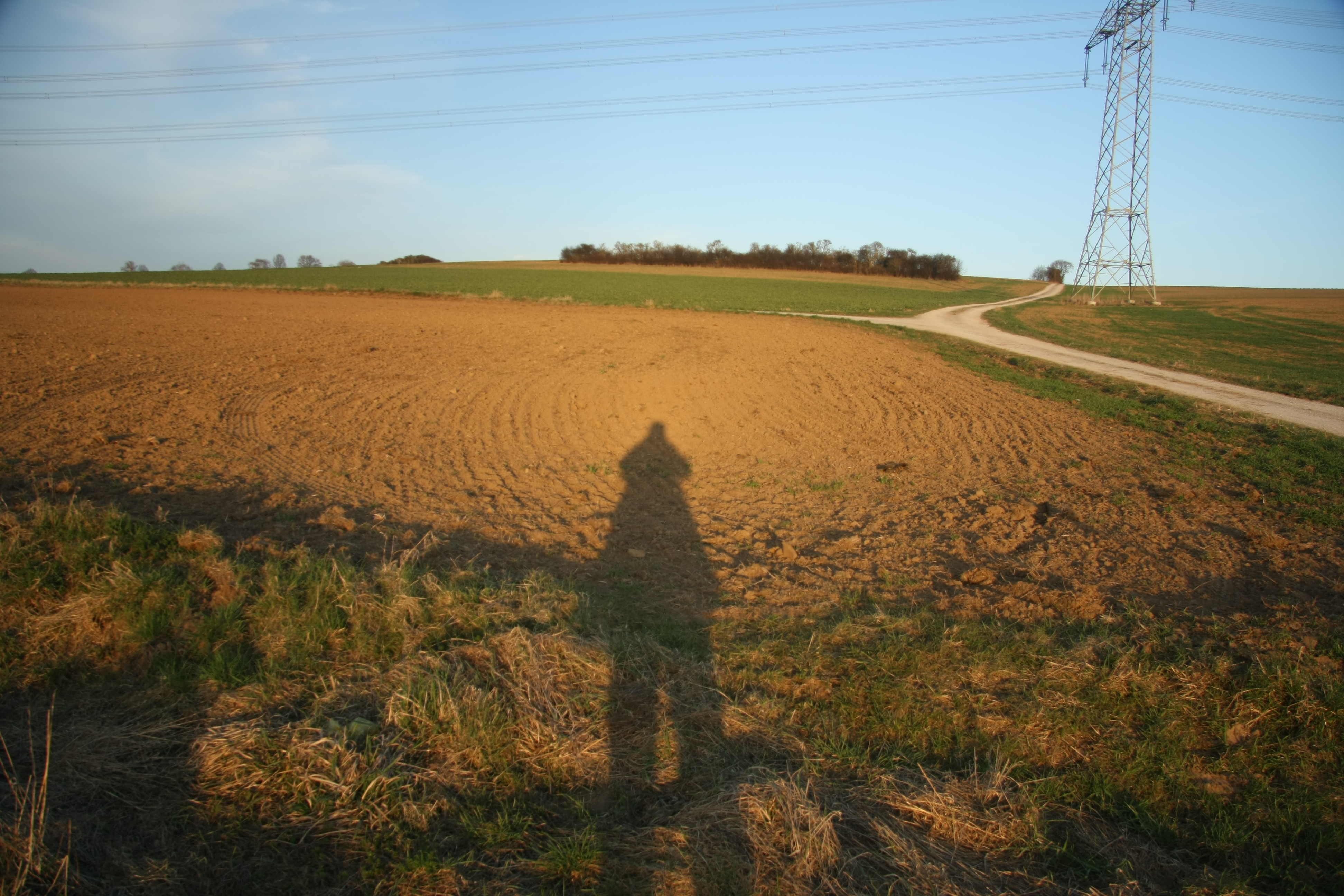 Opposition effect